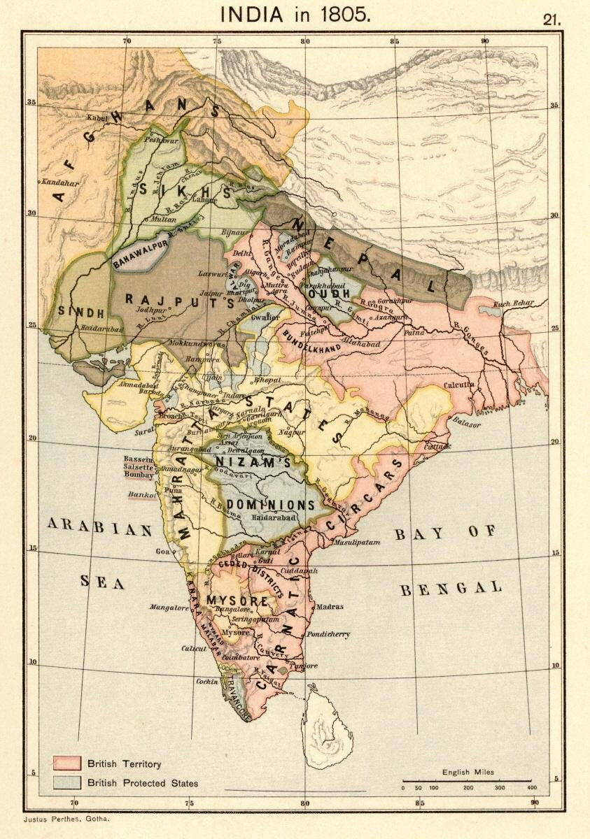 Map of India 1805 from: Joppen, Charles [SJ.] (1907) A Historical Atlas of India for the use of High-Schools, Colleges, and Private Students, London, New York, Bombay, and Calcutta: Longman Green and Co. Pp. 16, 26 maps. Scanned from personal copy, reduced, uploaded by Fowler&fowler«Talk» 23:51, 24 February 2009 (UTC)